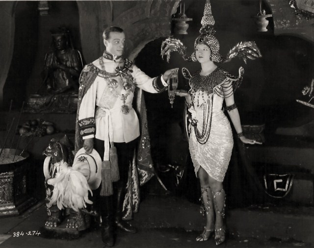 John Davidson and Julia Faye in Fool's Paradise - cropped screenshot. (While currently identifies the actress as Mildred Harris, other stills indicate that she is Julia Faye. For Mildred Harris in costume see still 384-268 in the IMDb entry for Fool's Paradise.)